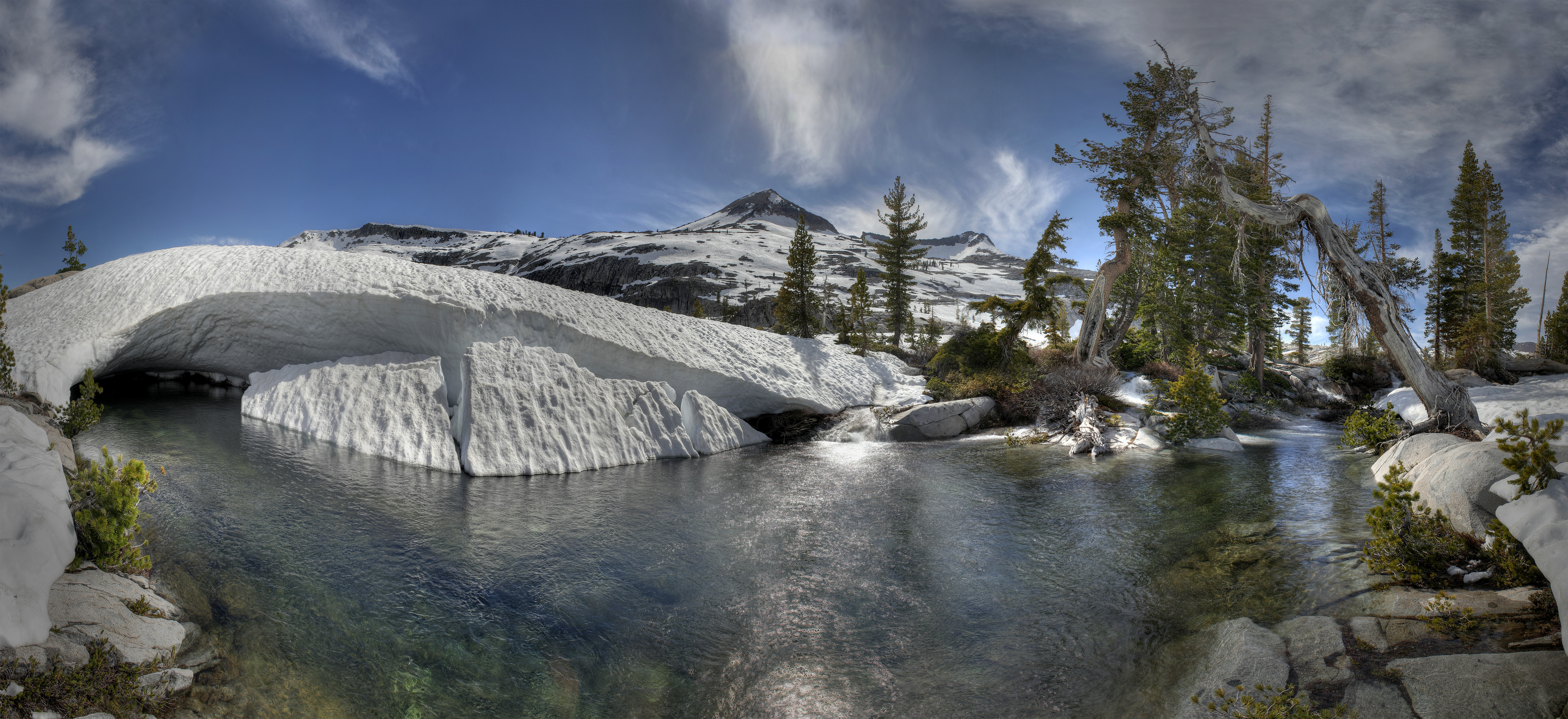 Outlet of Pyramid Lake in winter, in the Desolation Wilderness area of the Sierra Nevada, in El Dorado County, California.